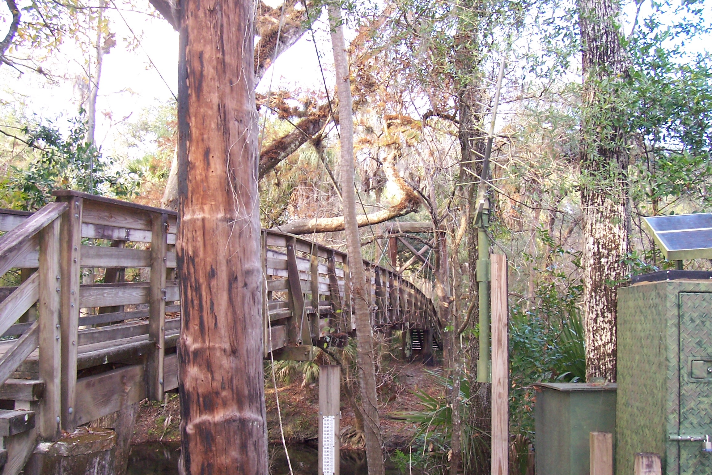 Hillsborough River State Park in northeast Hillsborough County, Florida